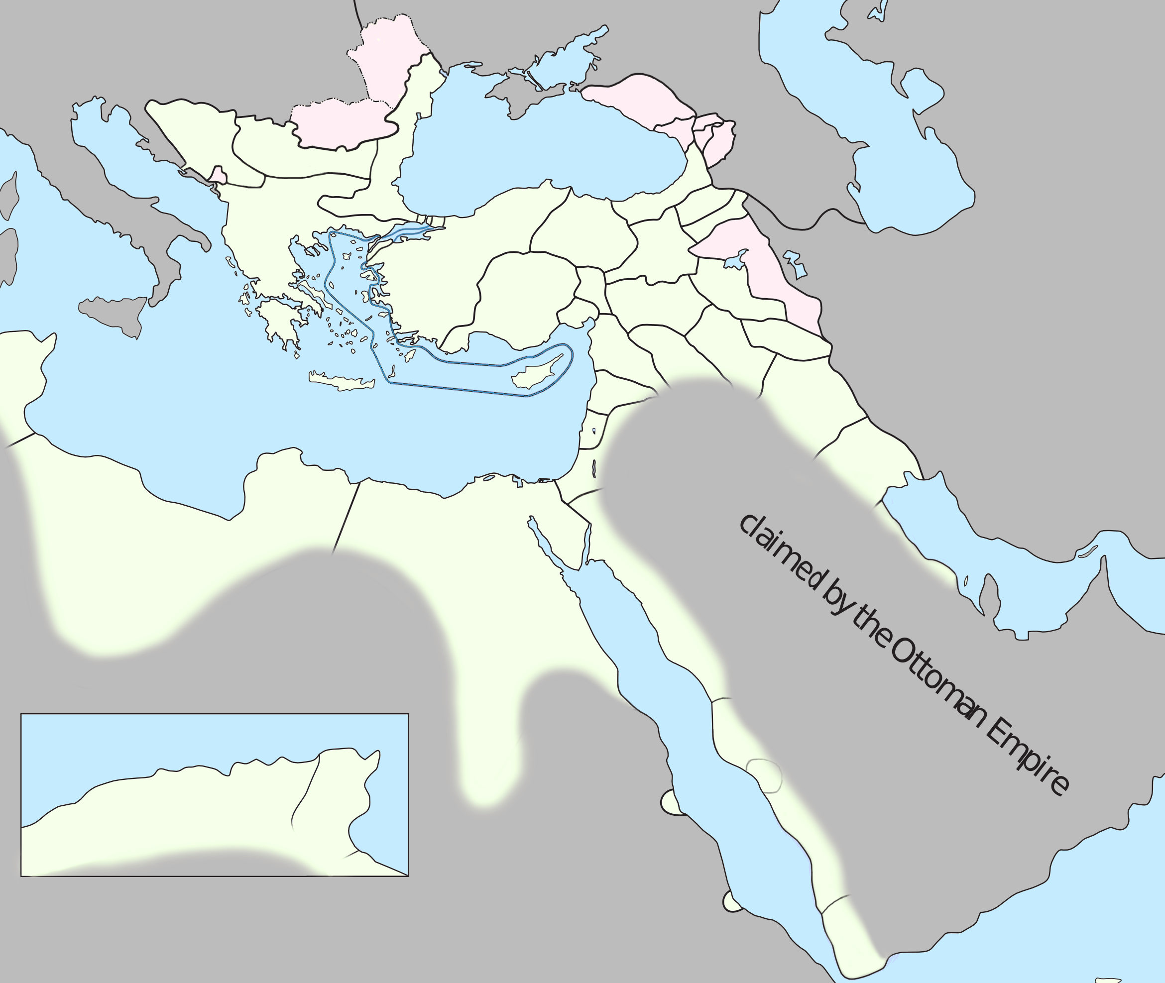 Eyalets of the Ottoman Empire in 1795 (with the Eyalet of the Archipelago circled.) Source: A Brief History of the Late Ottoman Empire at Google Books By M. Şükrü Hanioğlu